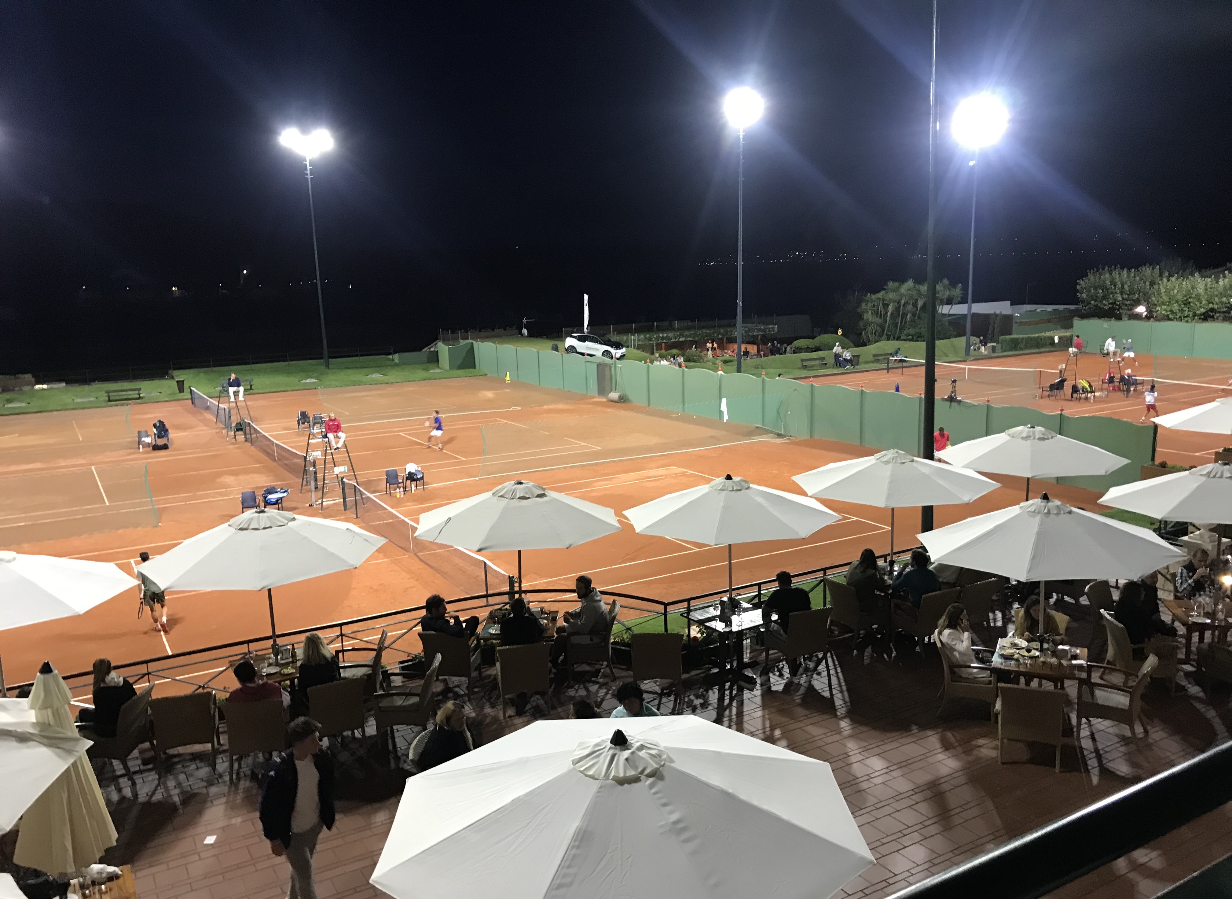 National championship tennis matches at Real Sociedad de Tenis de la Magdalena, Spain.